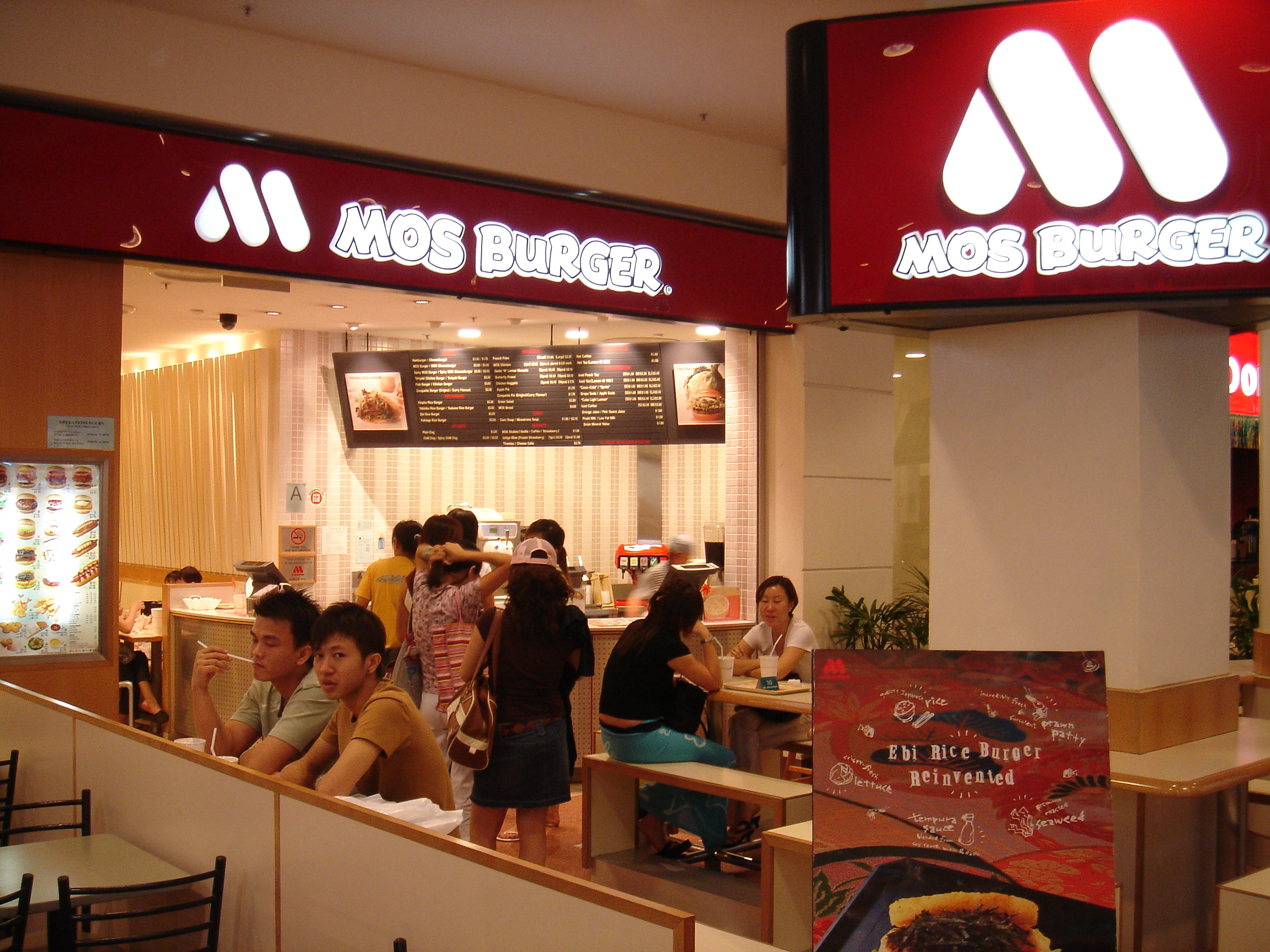 MOS Burger outlet in Jurong Point (Boon Lay), Singapore.